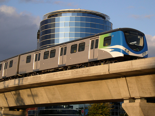 Canada Line Train 中文（香港）: 加拿大線到車